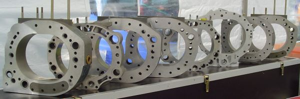 Some trochoids for Wankel rotary engine Audi NSU, Comotor, Wankel Rotary and Wankel Supertec